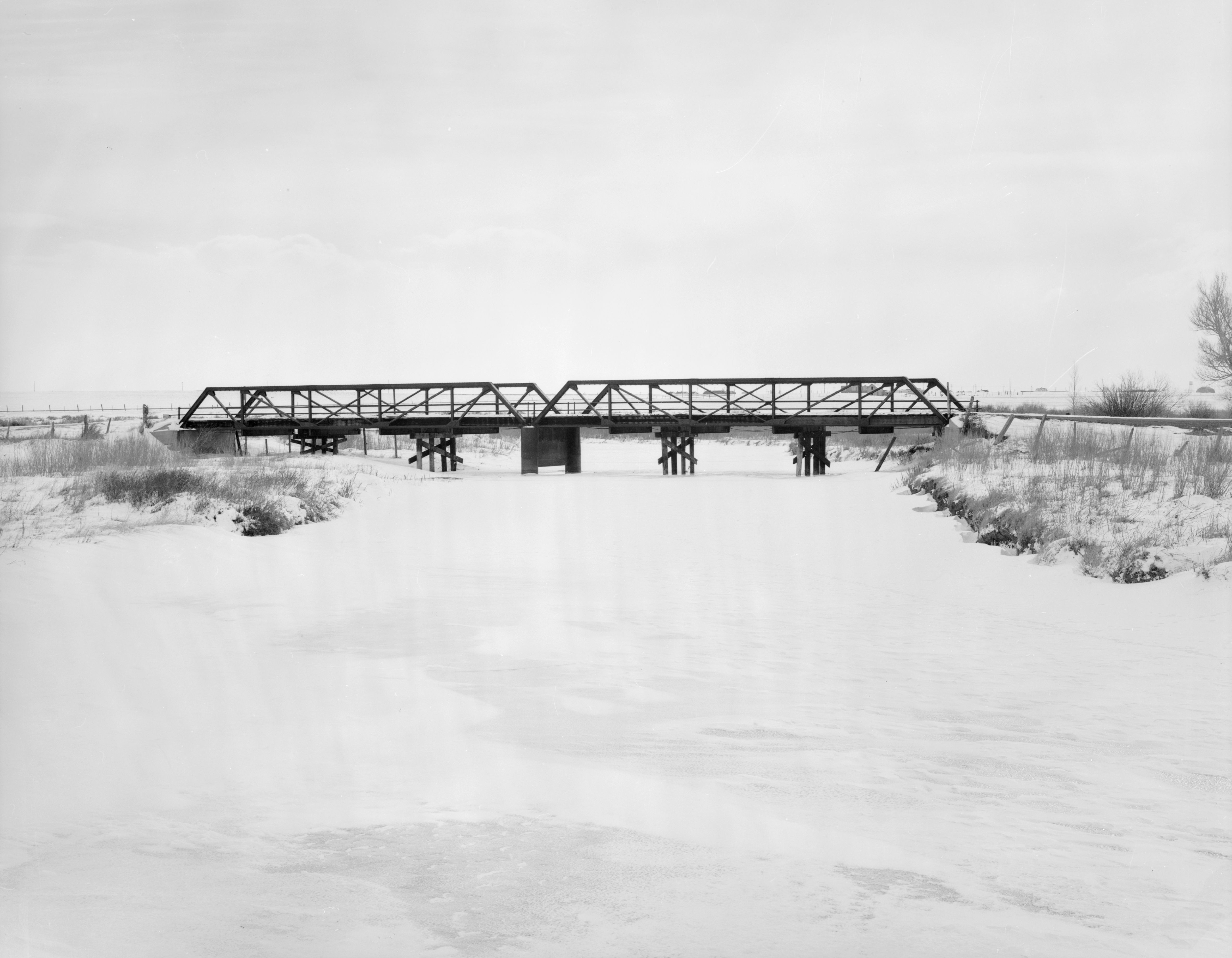 Northern side of the DOE Bridge over Laramie River, which carries County Road CNA-740 over the Laramie River near Bosler in Albany County, Wyoming, United States. Built in 1926, this Pratt Half Hip truss bridge (the only one of its type still in use statewide) is listed on the National Register of Historic Places.